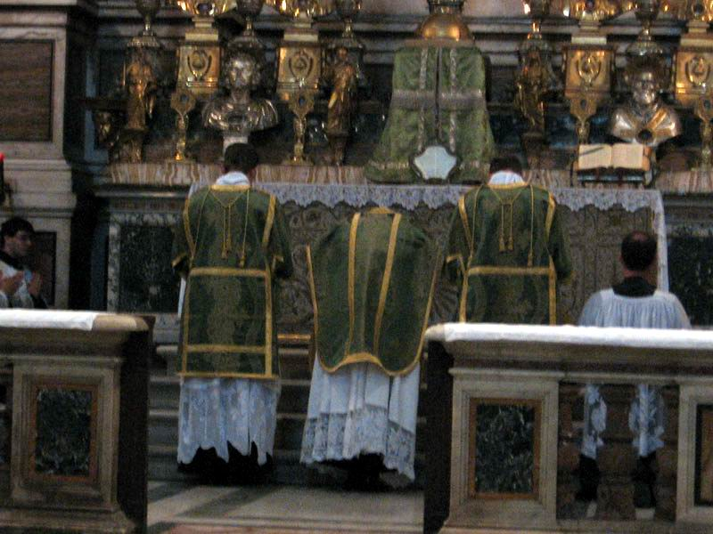 High tridentine Mass: confiteor